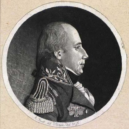 Frederik Hauch (1754-1839), Danish supreme court judge and civil servant